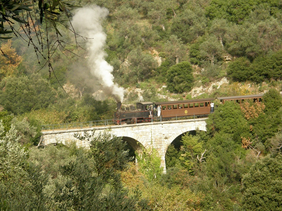 Greece: A Tubize narrow gauge (600 mm) locomotive hauls a charter train from Milies to Ano Lechonia on the Pelion Railway.